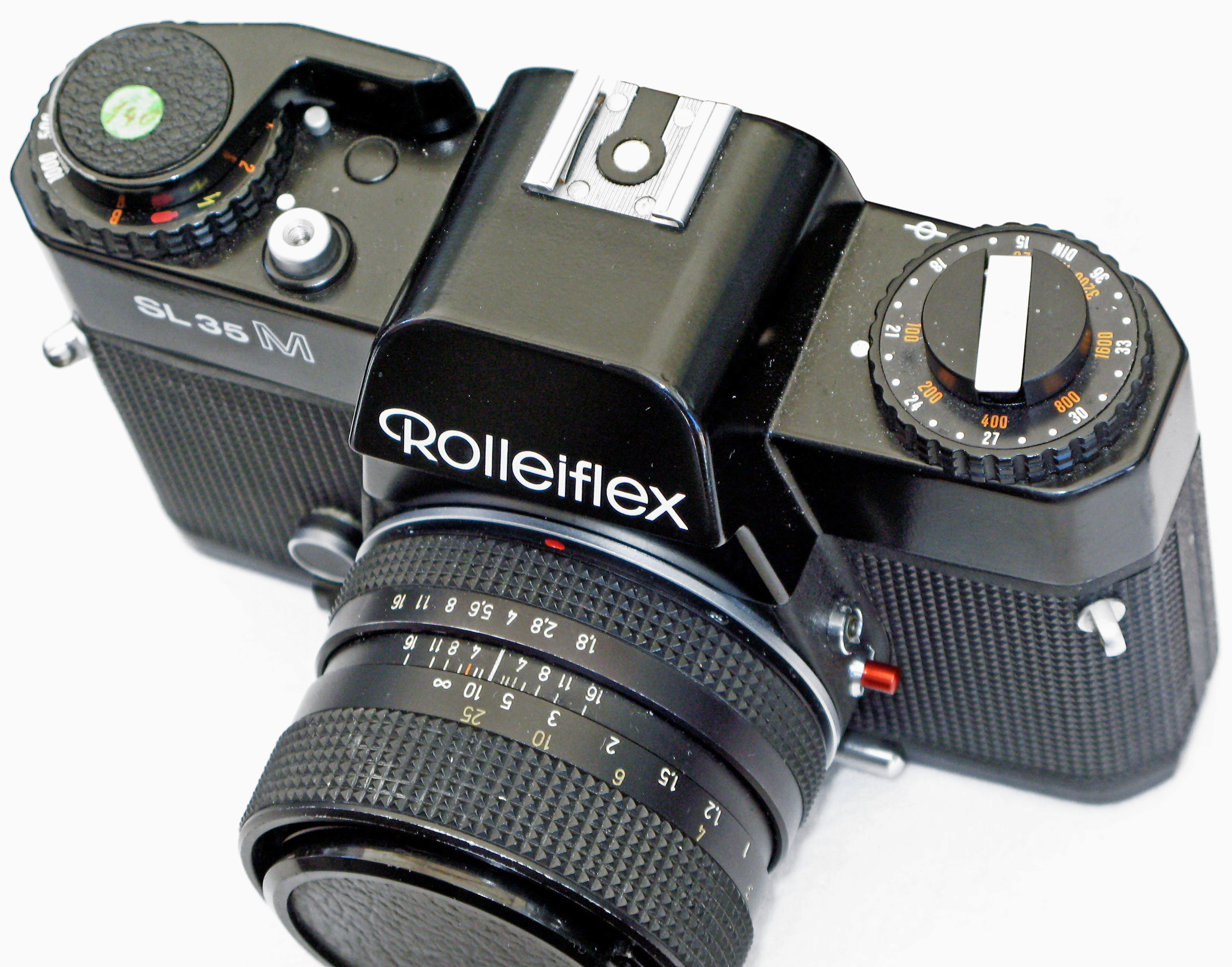 Rolleiflex SL35